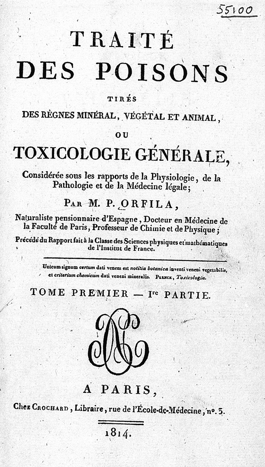 Title page Rare Books